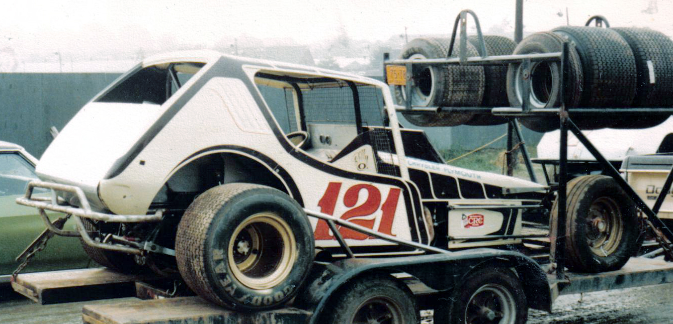 Billy Pauch and the 121 at Middletown in 1979.Billy Pauch #121